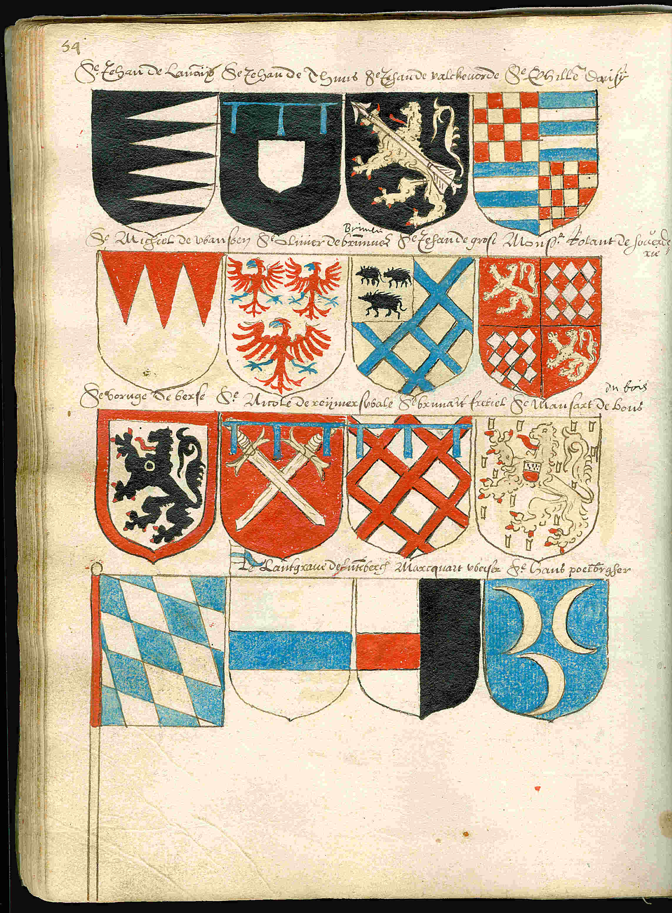 Page 54 from a copy of the Beyeren armorial / Wapenboek Beyeren from ca. 1600. The original Beyeren armorial from 1405 can be viewed at the website of the KB